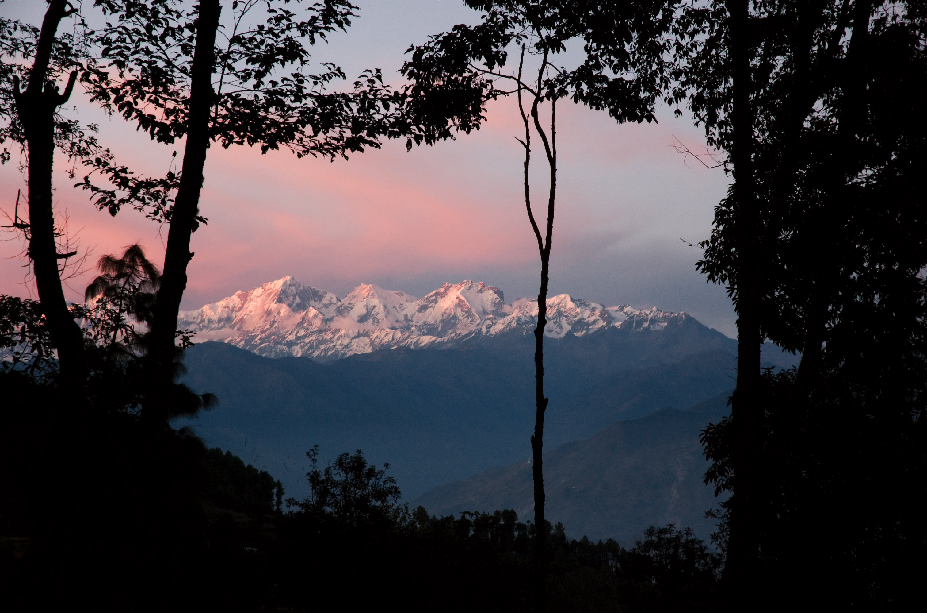 Himalaya seen at sunset from Kaule, Nepal